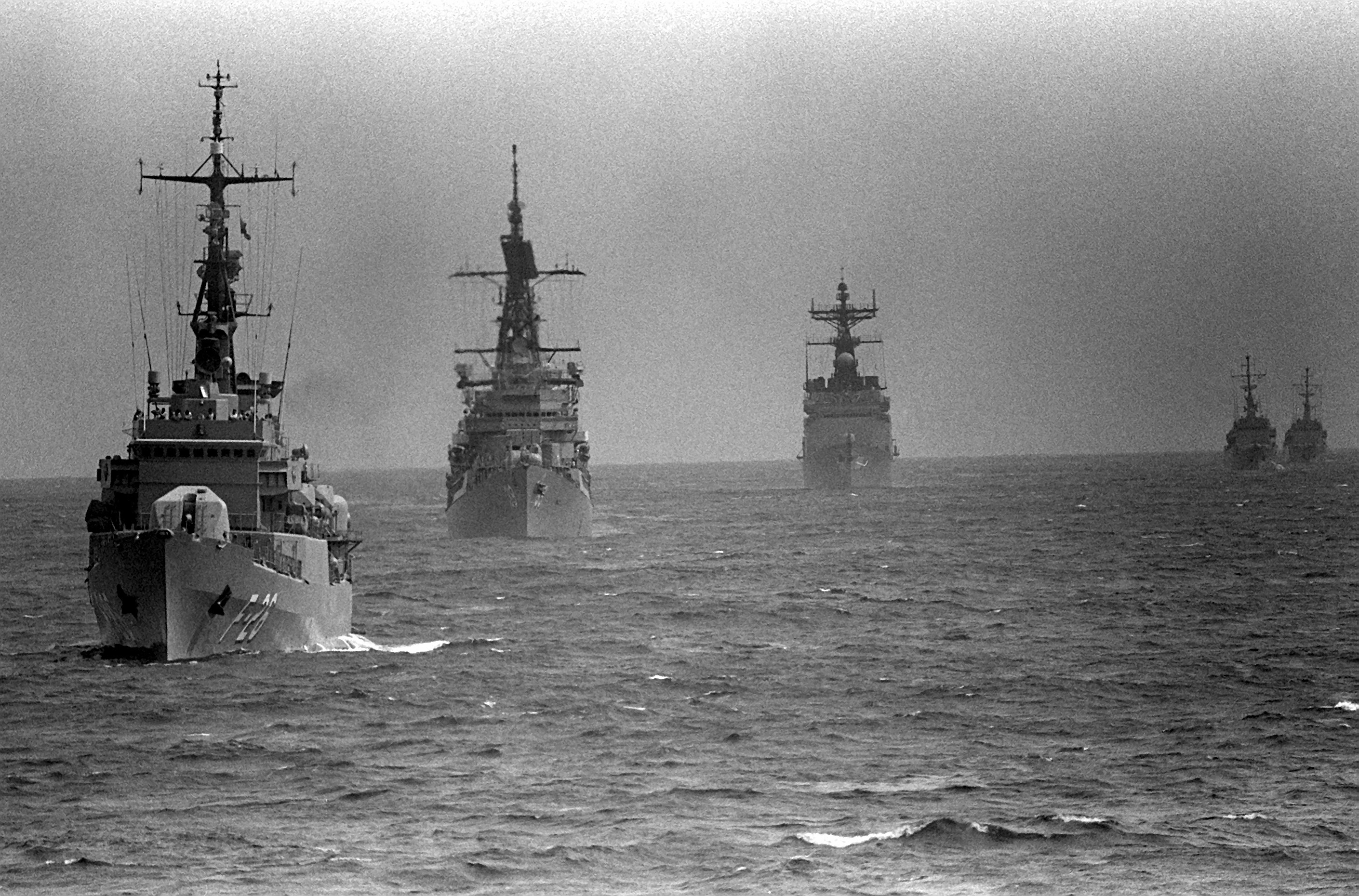 The Venezuelan frigate ALMIRANTE JOSE DE GARCIA (F-26), the guided missile destroyer USS MACDONOUGH (DDG-39), and the destroyer USS THORN (DD-988) steam in formation during Unitas XXV.